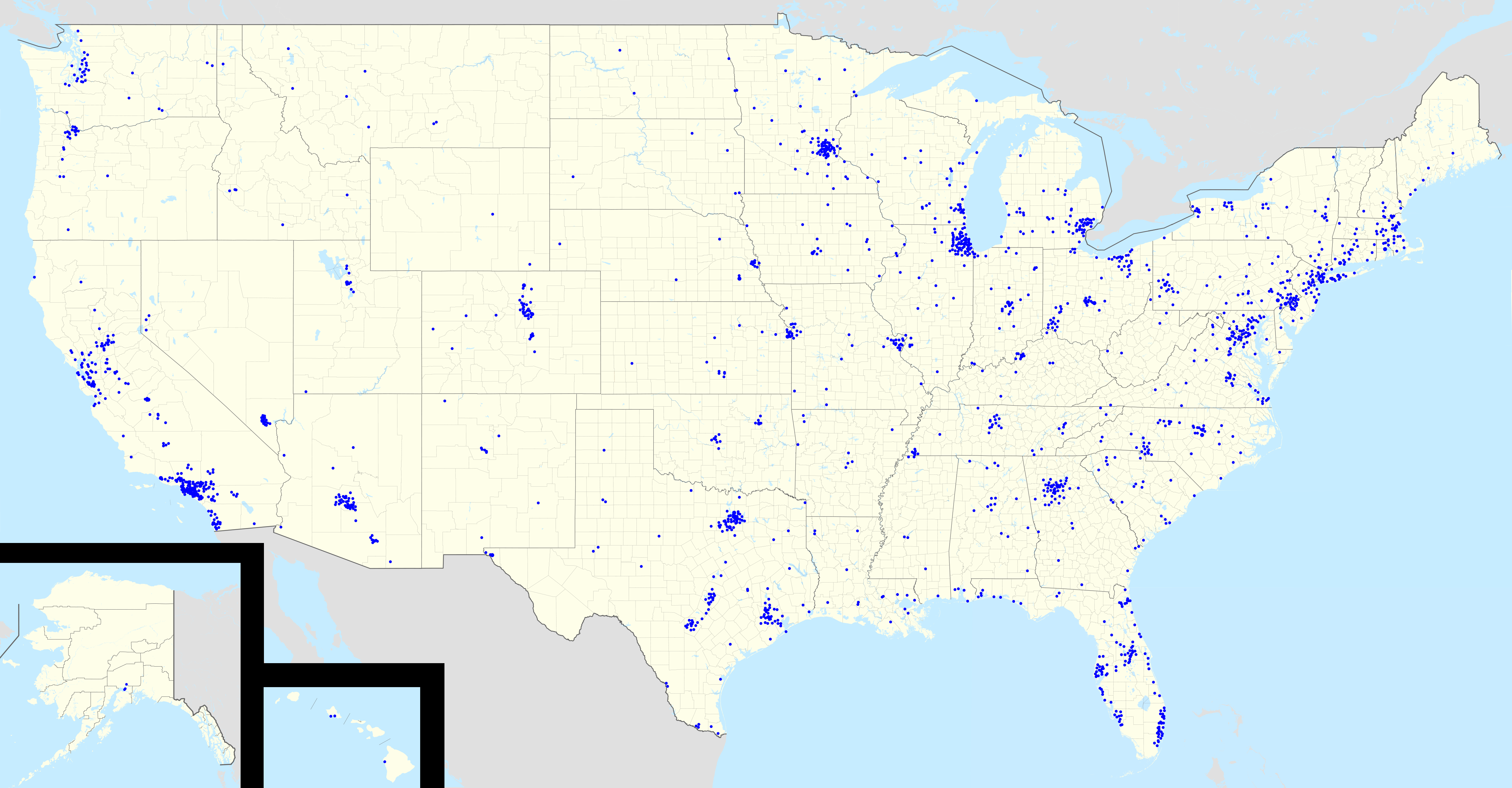 Footprint of Target Corporation's stores within the United States.